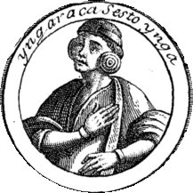 Portrait of Inca Roca, detail of the frontispiece to the fifth Decade of Historia general de los hechos de los castellanos en las Islas y Tierra Firme del mar Océano que llaman Indias Occidentales by Antonio de Herrera